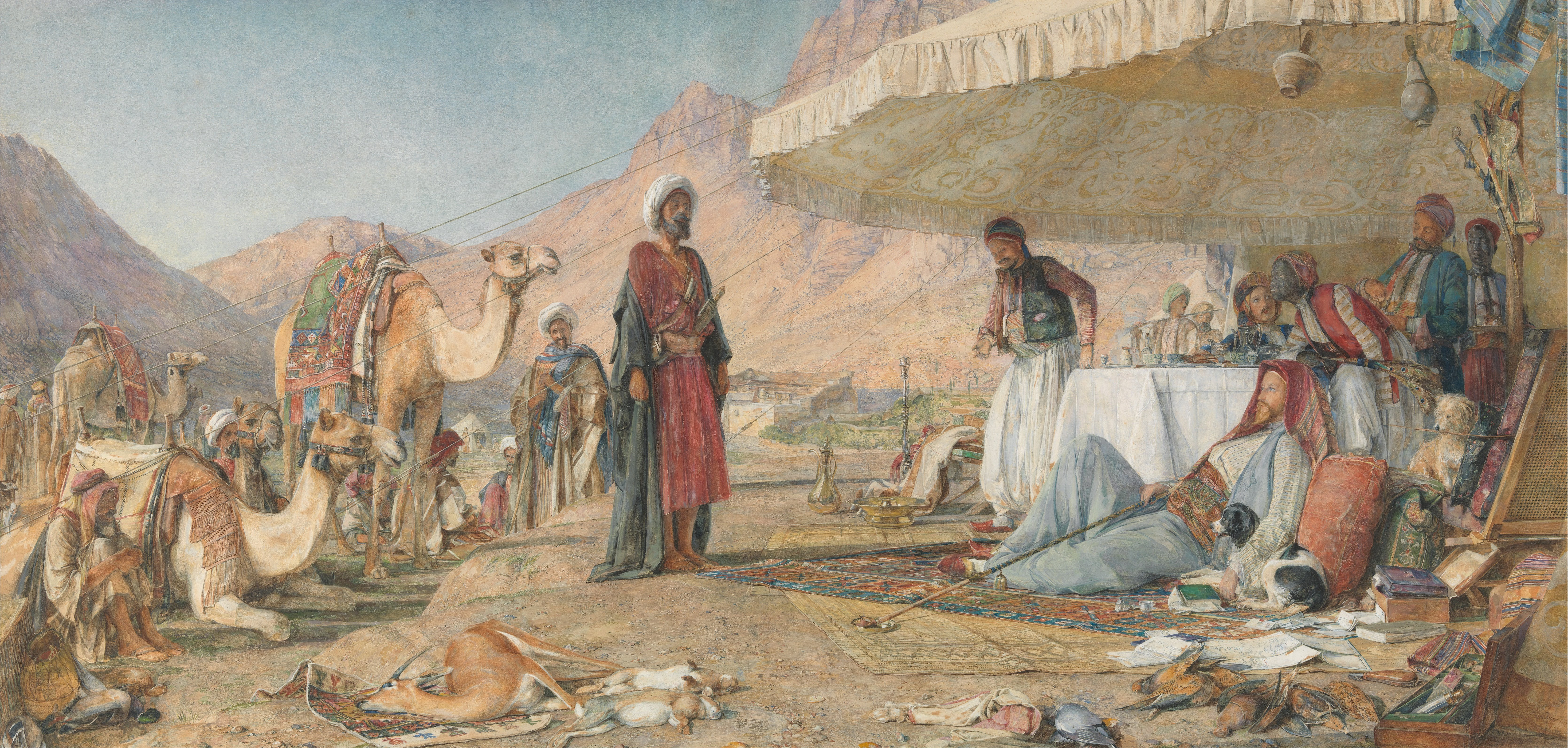 The camp of Frederick Stewart, Viscount Castlereagh, later fourth Marquess of Londonderry (1805-1872).